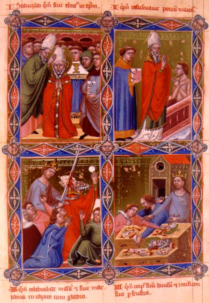 Saint Stanislaus of Szczepanów. Martyr Polish Bishop of Cracow of the XI century. Image of the Anjou legendarium of the Kings of Hungary (XIV century)